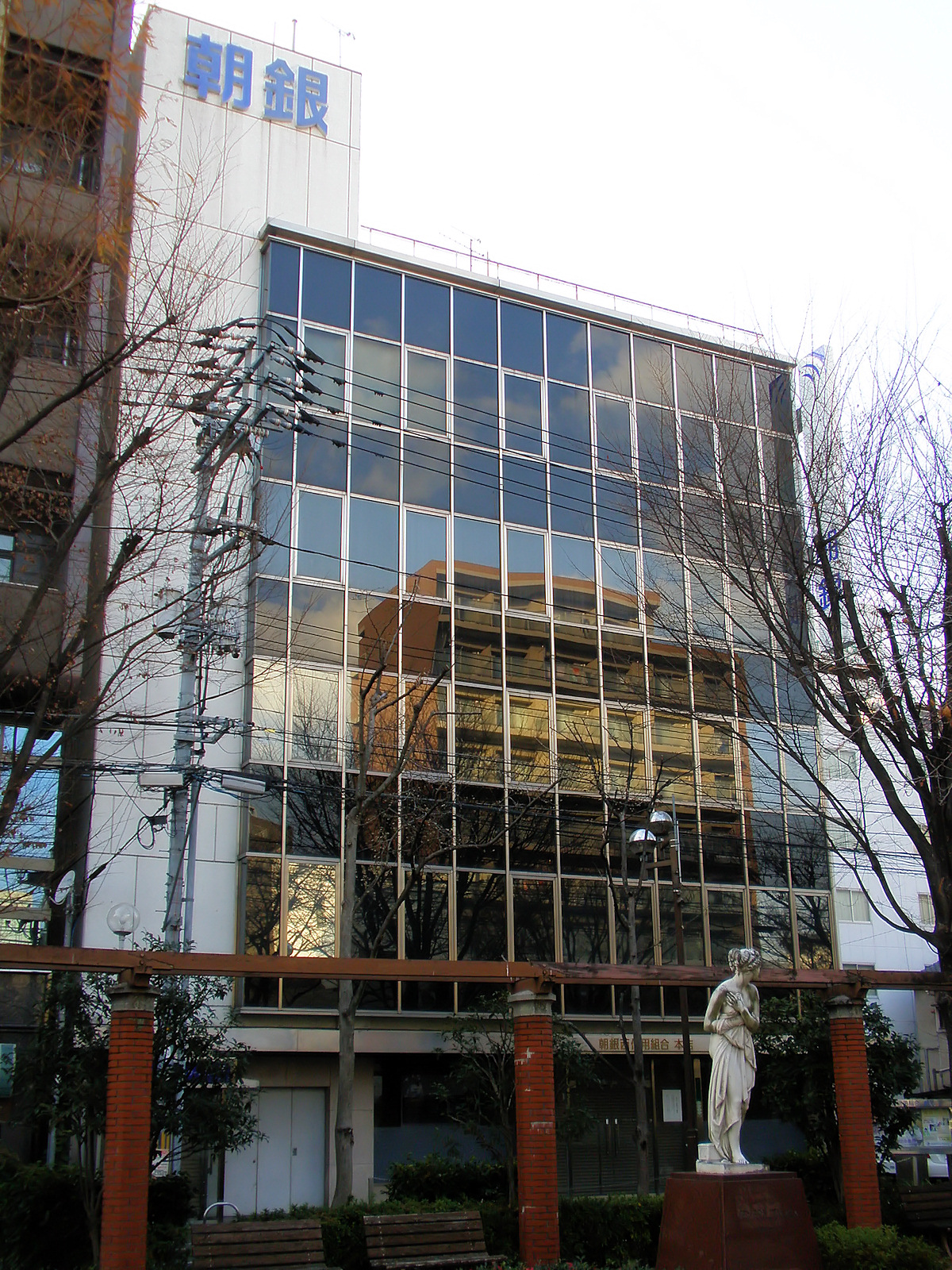 Chogin-Nishi Credit Cooperative head store, Okayama.